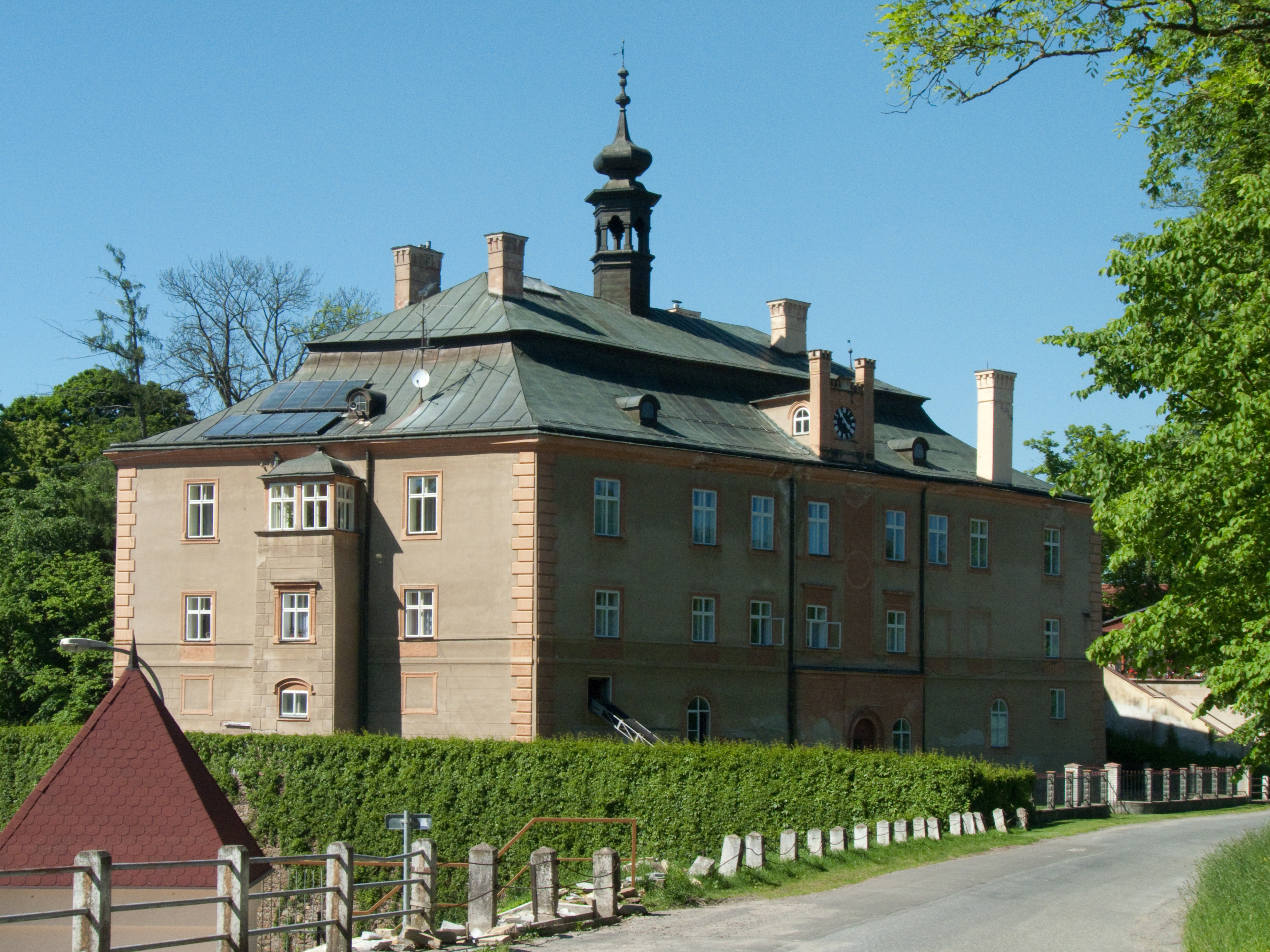 Mansion in the village of Dírná, Tábor district, Czech Republic, at present used a bed-and-breakfast